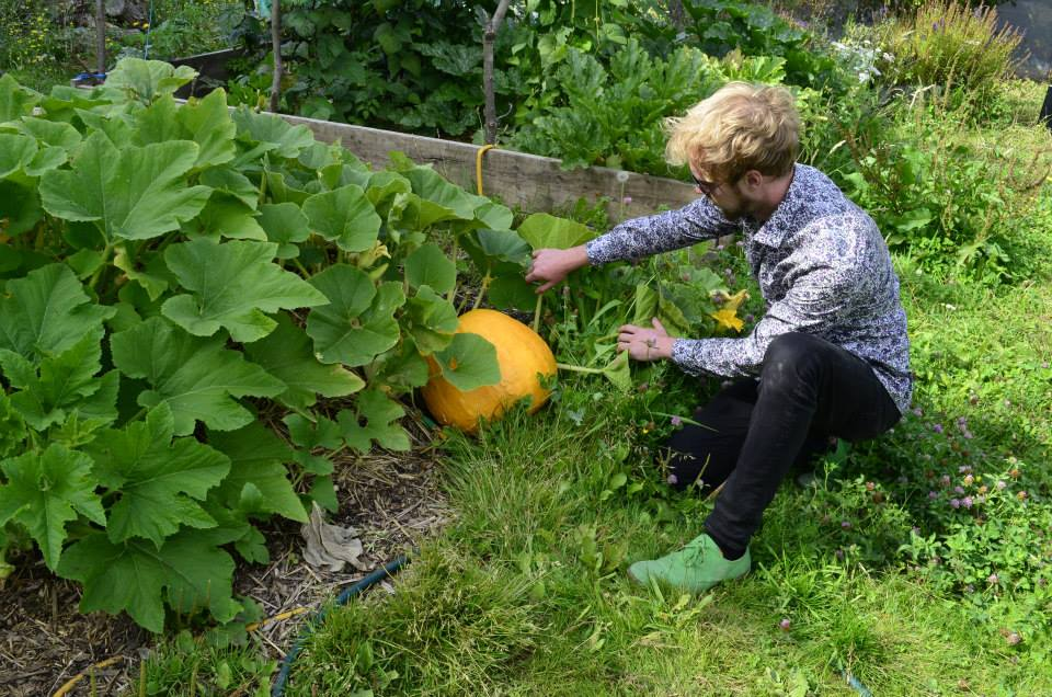 Tom Garrett gardening at Grow Heathrow.